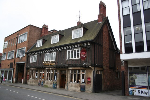 Ye Olde Crowne Popular pub on Clasketgate